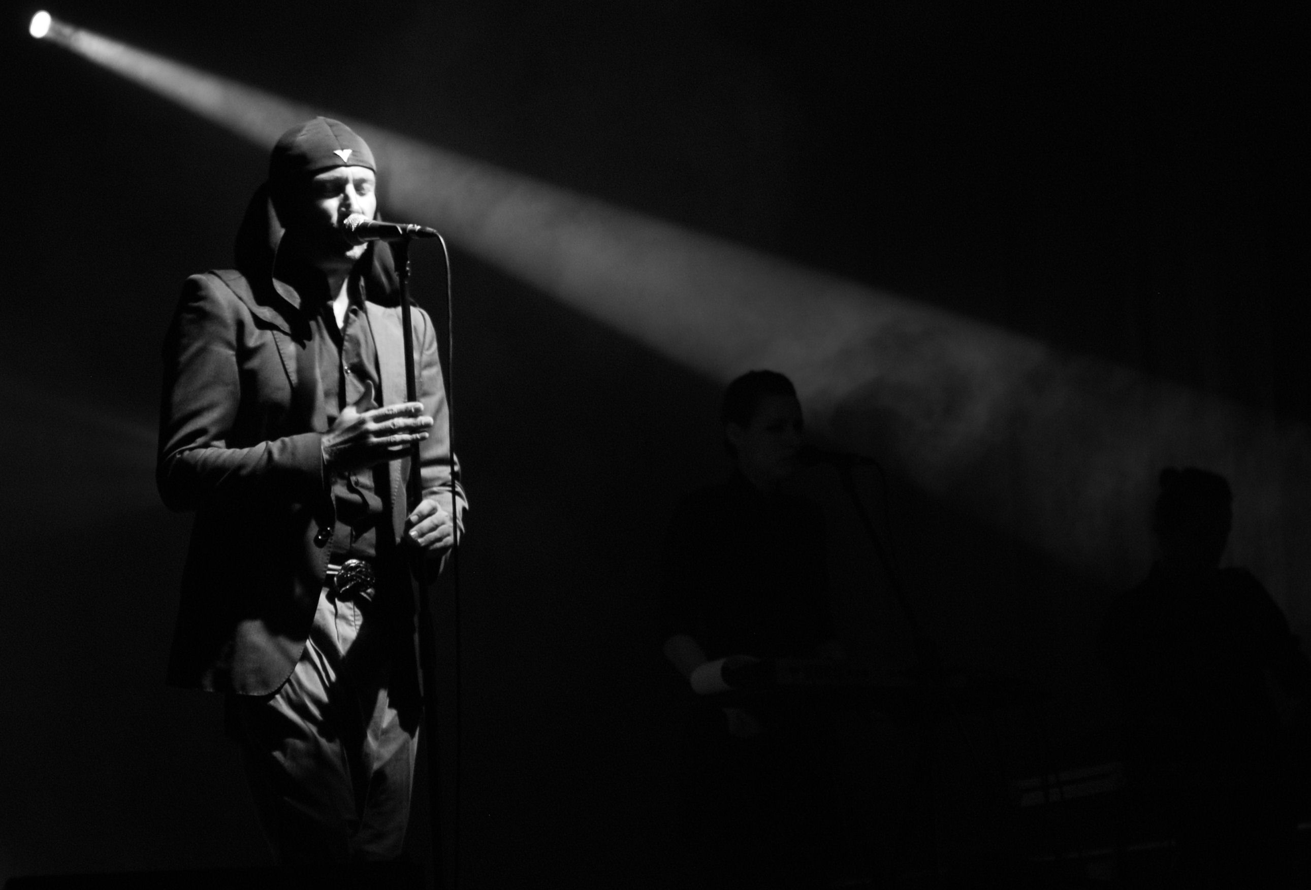 Taking of this photo was in cooperation with wRacku Festiwal